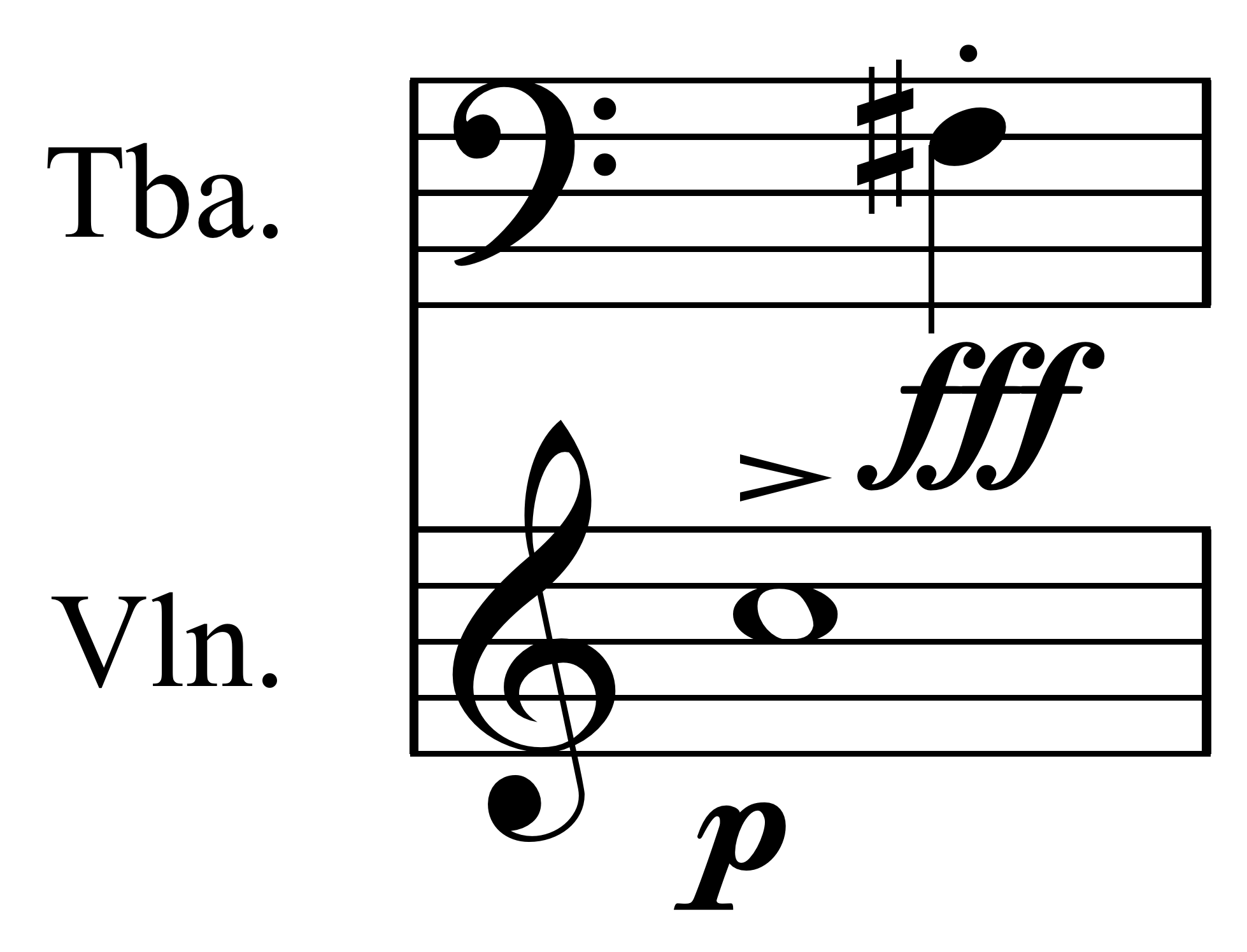 This notation indicates differing pitches, dynamics, articulations, instrumentation, timbre, and rhythm (durations and onsets). Created by Hyacinth (talk) 12:57, 22 May 2014 (UTC) using Sibelius.